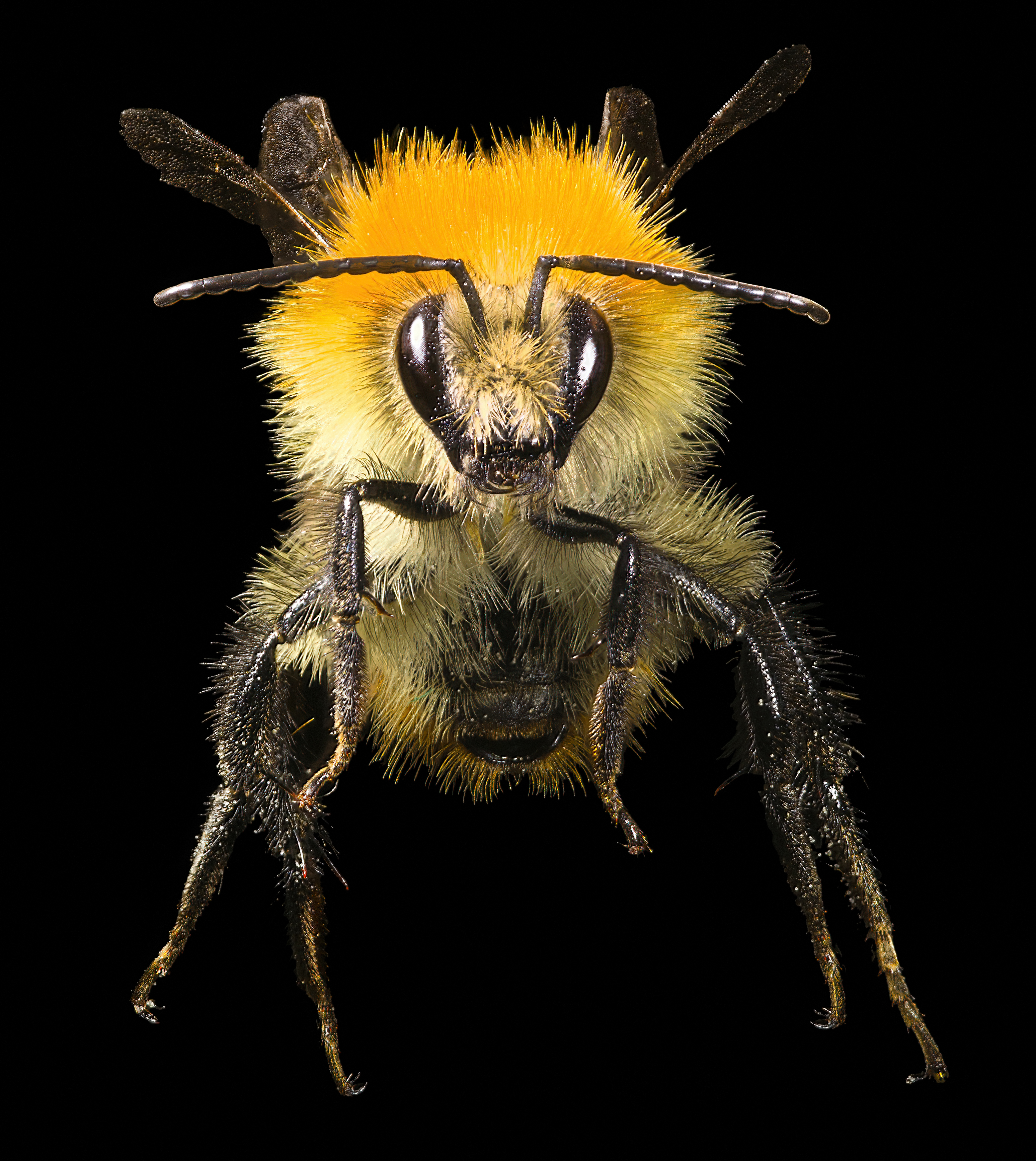 Common carder bee (Bombus pascuorum Scapoli 1763). Bumblebees (also spelled bumble bee, also known as humblebee) are flying insects of the genus Bombus in the family Apidae. Male specimen: 13 items per antenna and 7 by abdomen (12 and 6 for females) Locality : Fronton, Midi-Pyrénées, France Size (antennae and legs off) : 1.7 cm